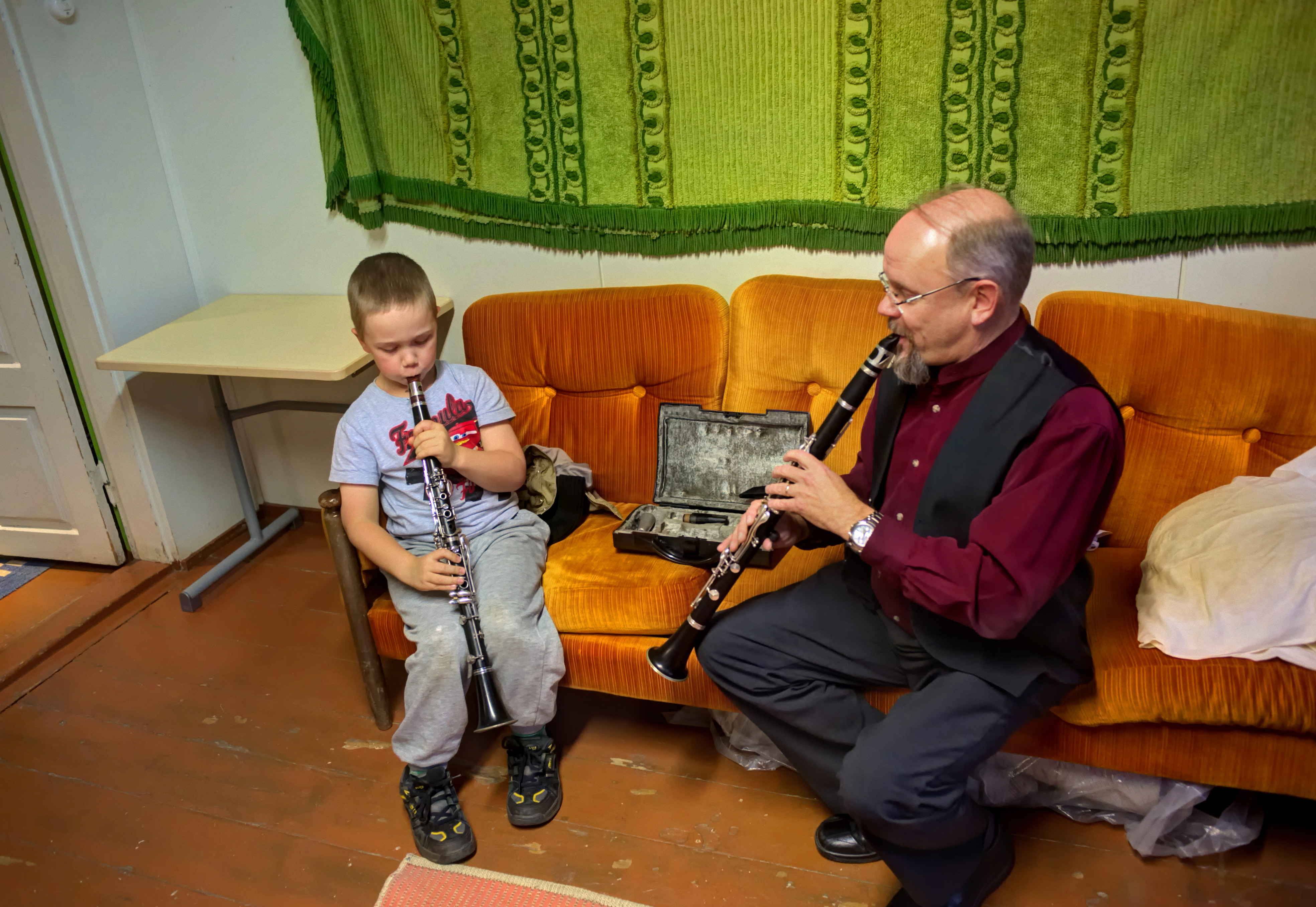 Young Clarinetist